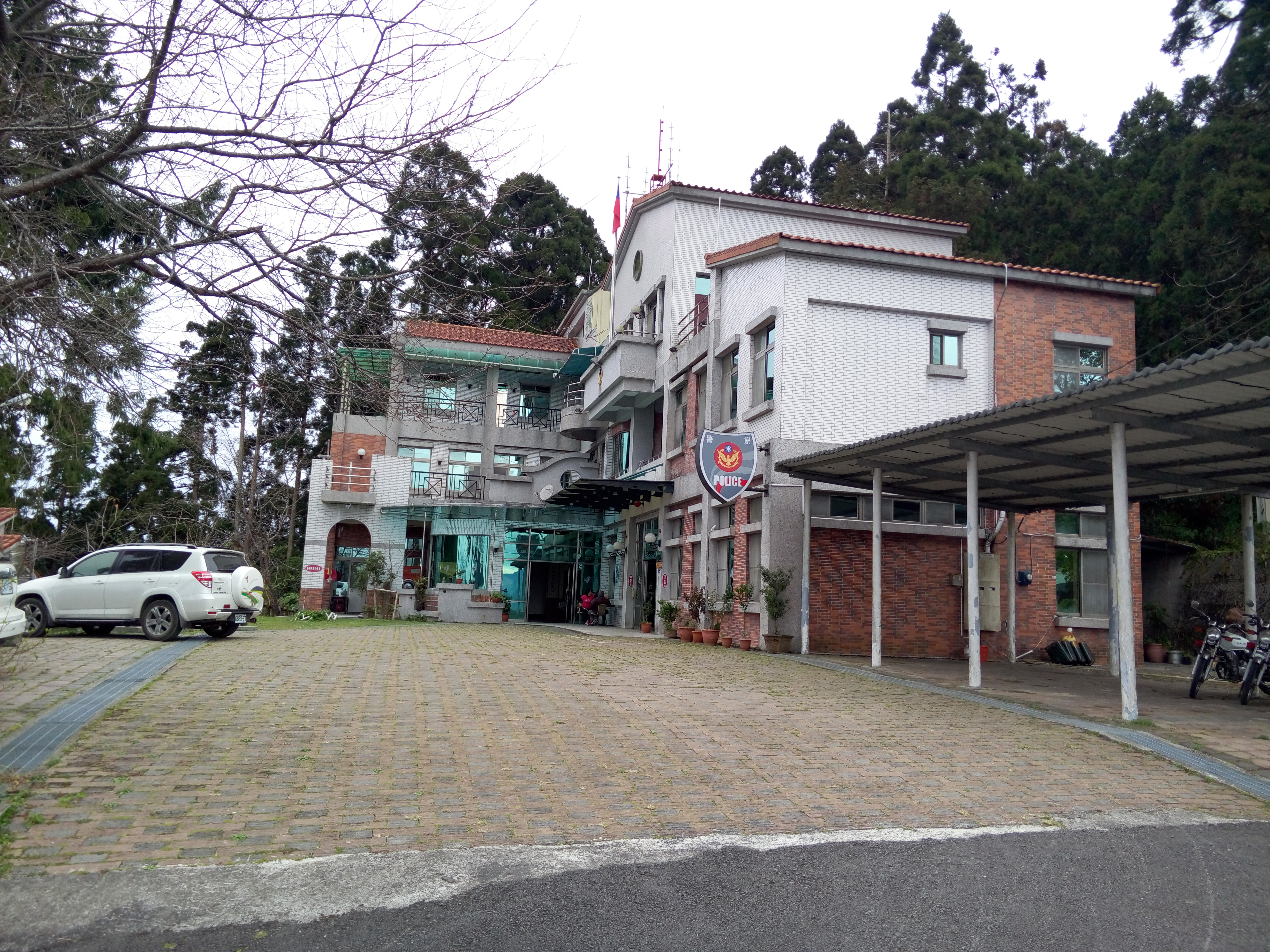 Sentao Police Station near by Tengjhih National Forest Recreation Area